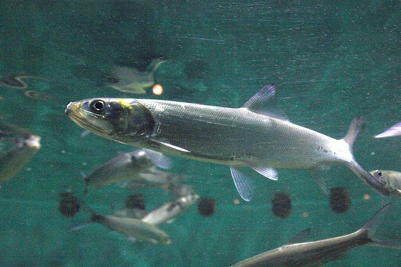 Ladyfish, New Orleans Audubon Aquarium